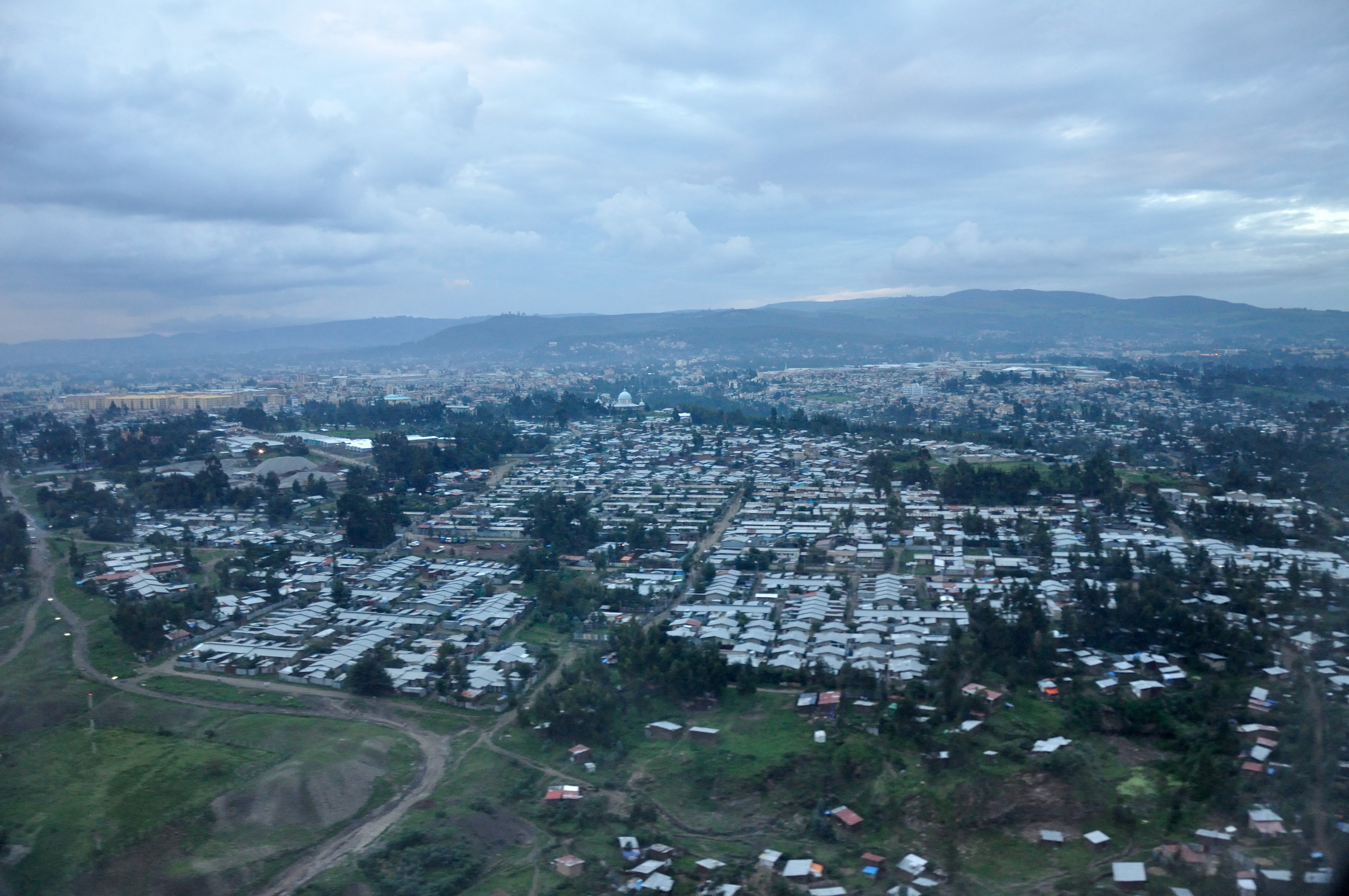 Ethiopia, Approach into Addis Abeba in the late afternoon